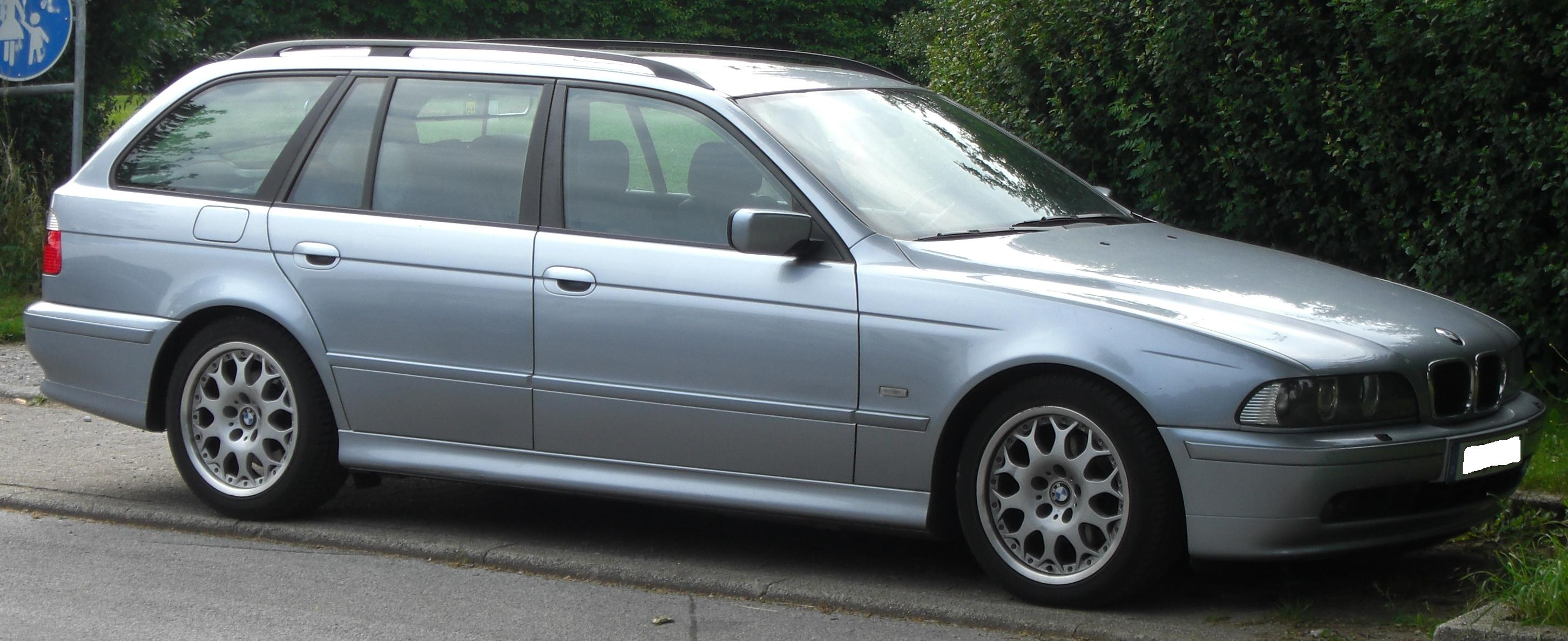 BMW 5-series touring (e39)